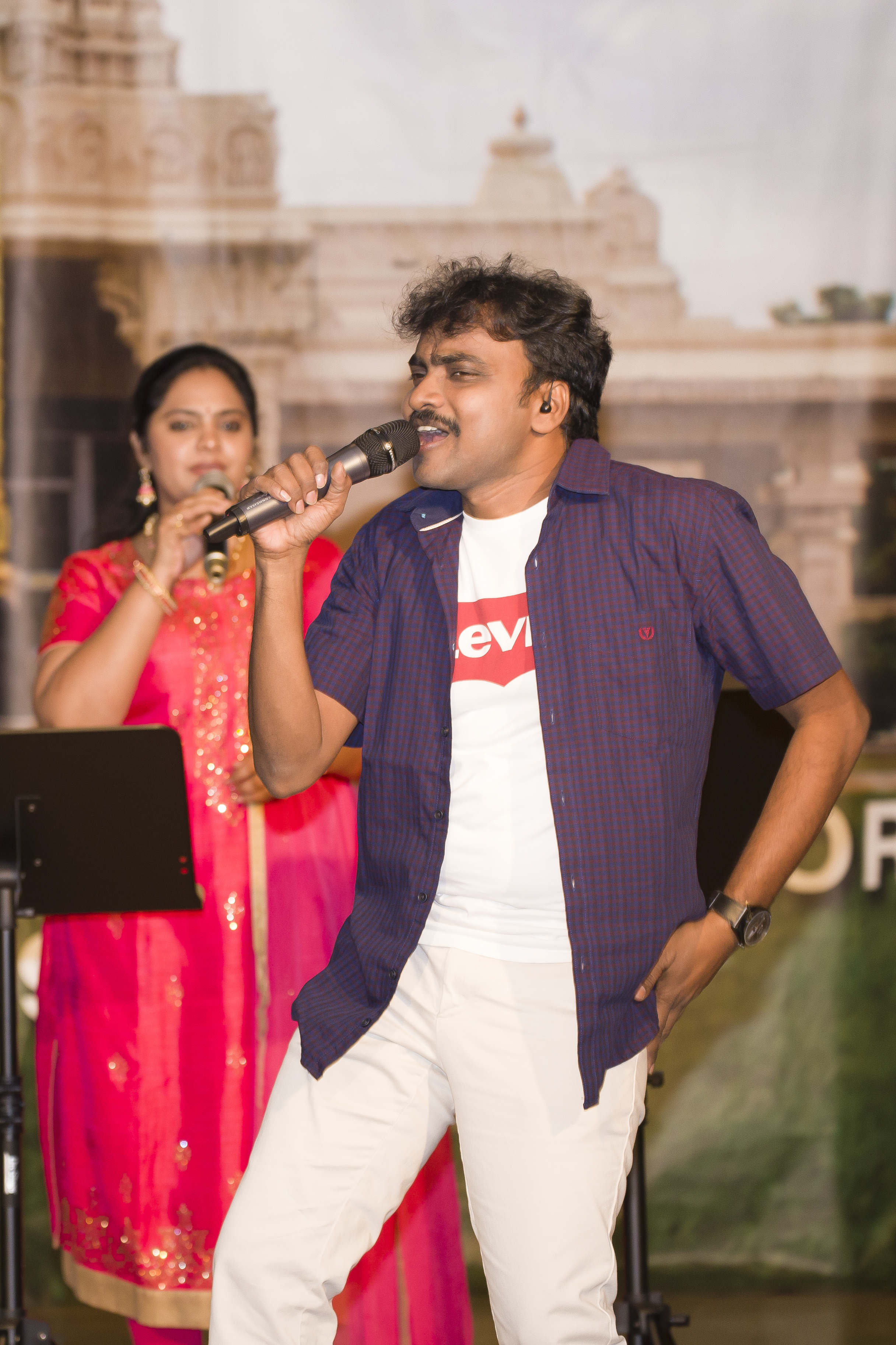 Singer Mallikarjun performing in USA